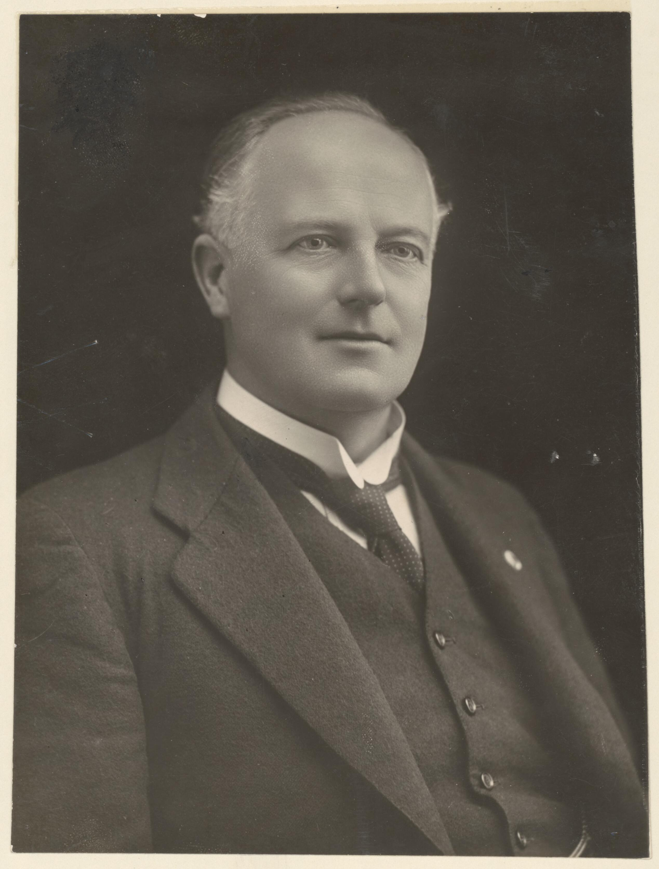 Australian politician Eric Bowden